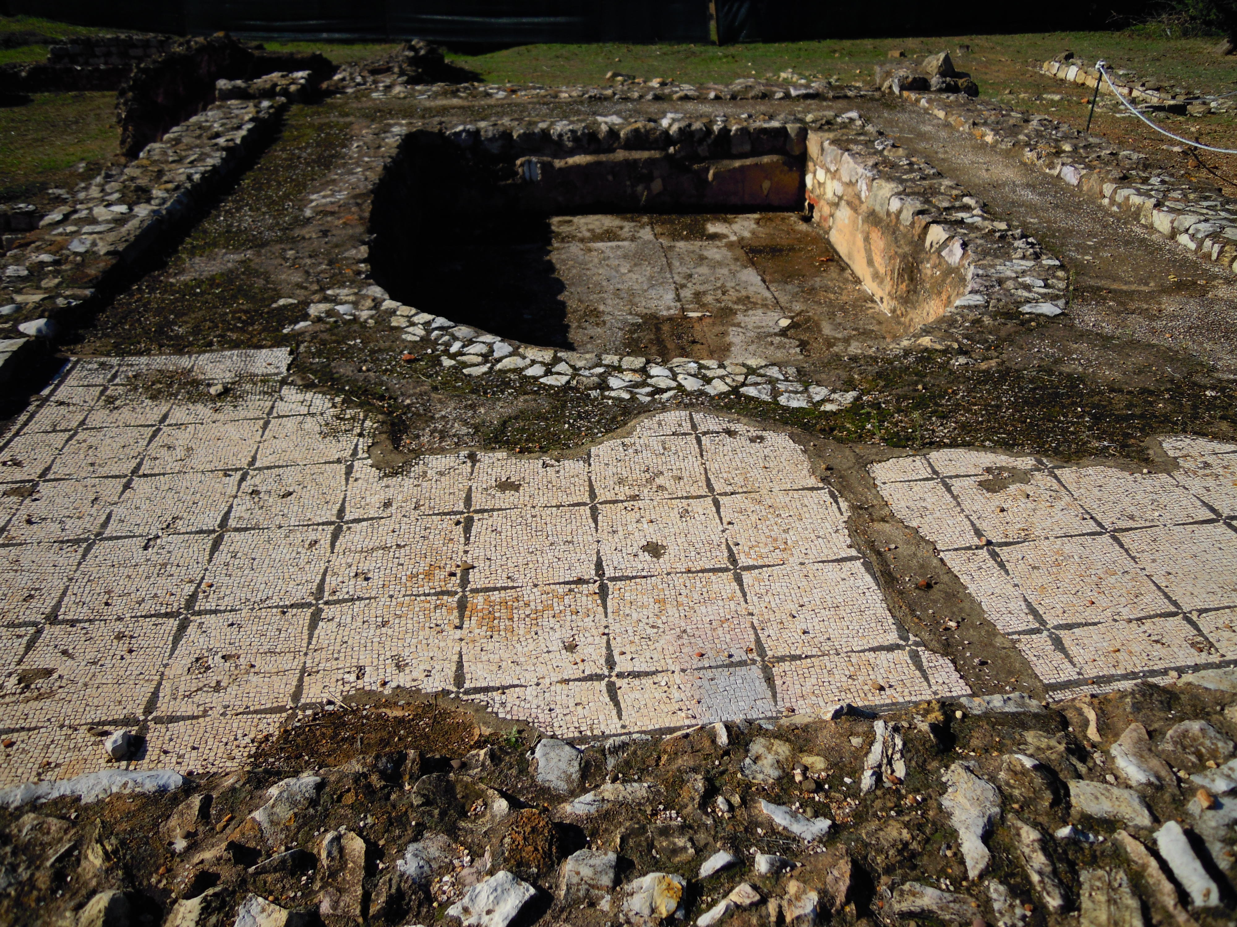 The east elevation of the Roman Ruins of the Villa at Cerro da Vila in the resort of Vilamoura, Loule, Algarve, Portugal. The Frigidarium which was a pool built for cold water bathing in spa complex, this area was a private area of the villa. This monument is classified as Imóvel de Interesse Público.